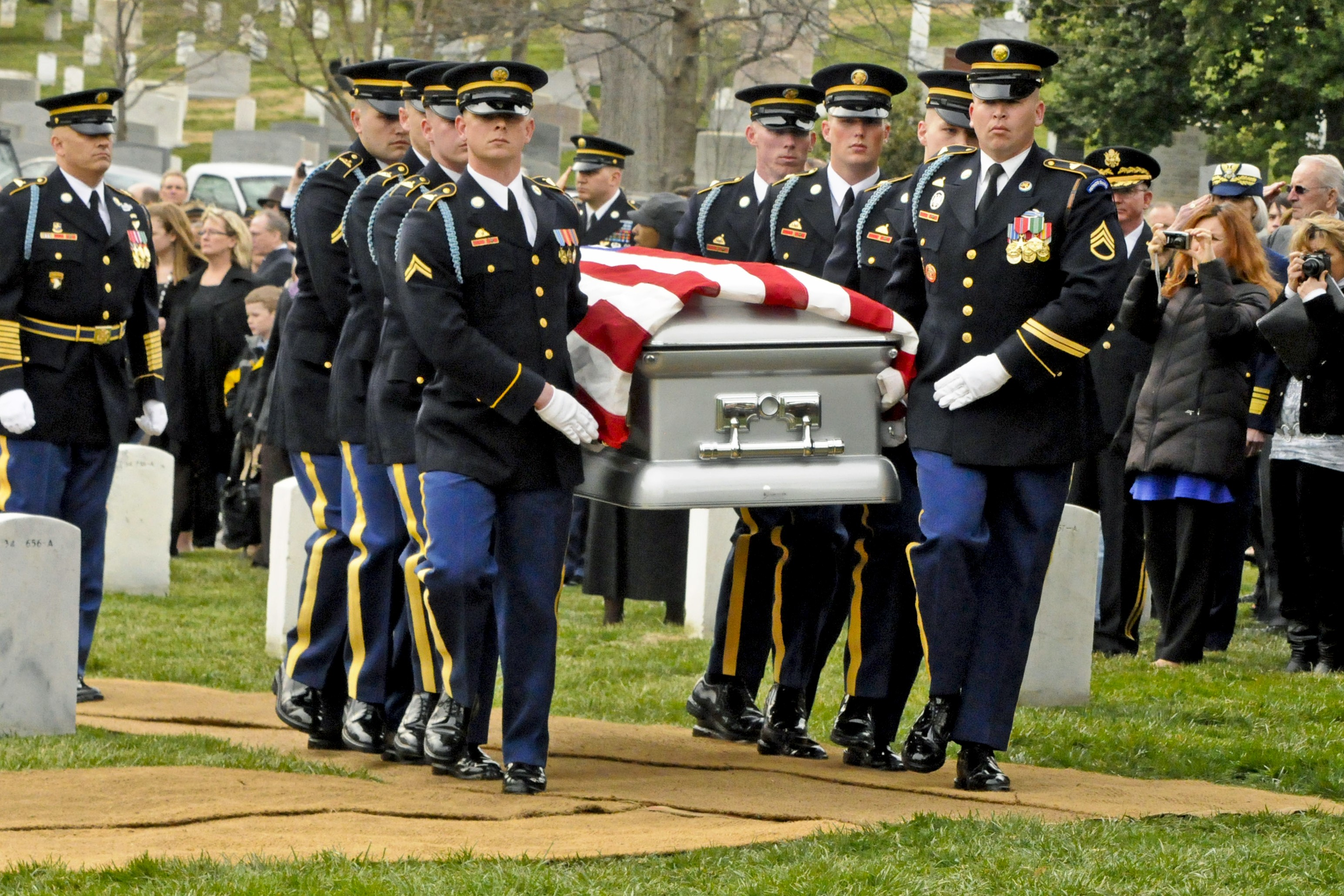 Members of the 3rd Infantry Regiment (Old Guard) carry the casket of Frank Buckles to be buried at Arlington National Cemetery.